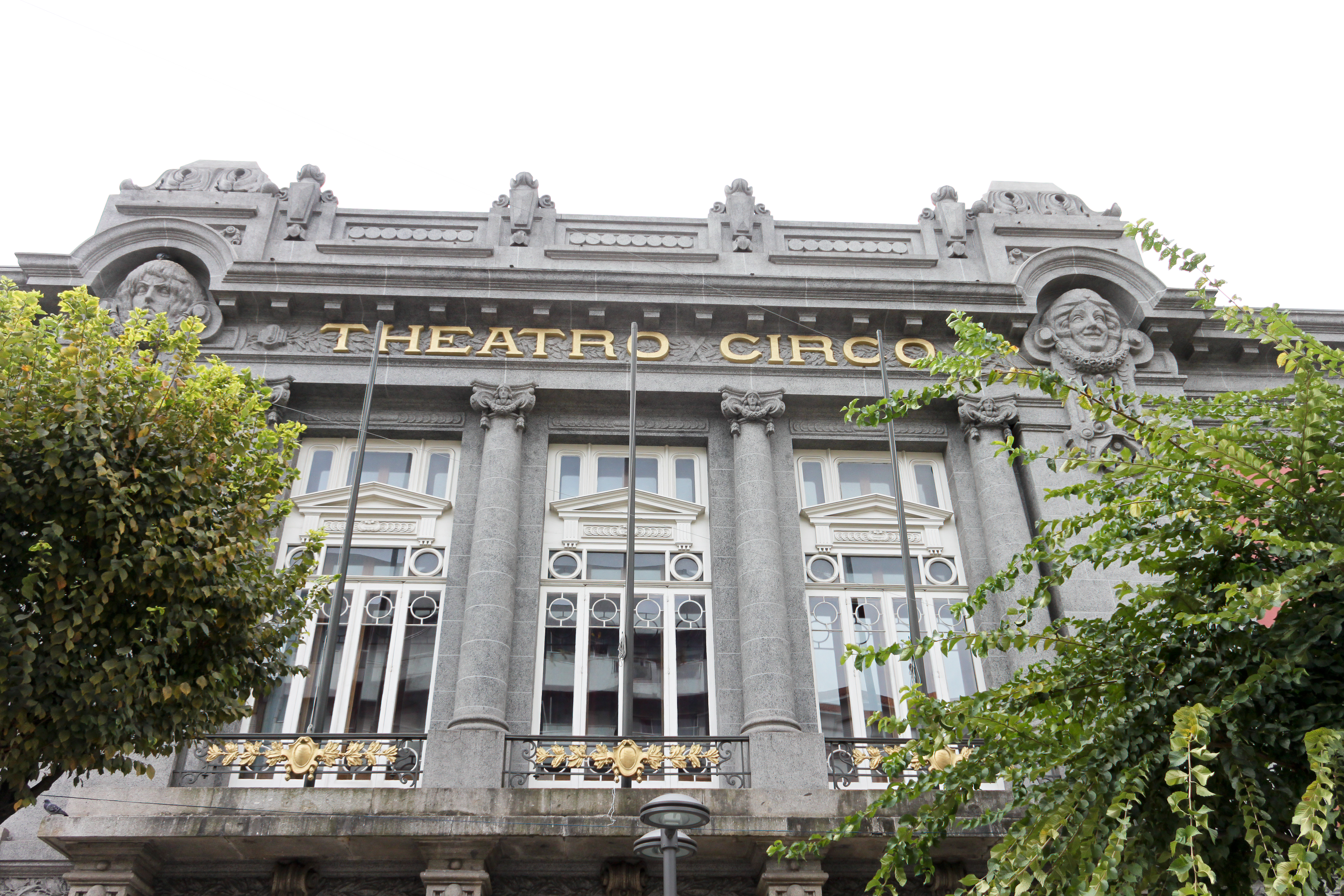 This file was uploaded for Wiki Loves Monuments in Portugal with the unique identifier 71275.